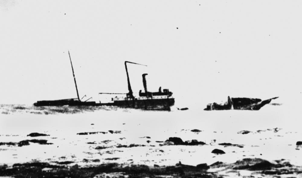 Thermopylae (ship) Built 1891. 3711 tons. On 11 September 1899, when bound from Australia to England, ran ashore at Green Point, near Cape Town, South Africa. There was a thick fog at the time. (Description supplied with photograph.).